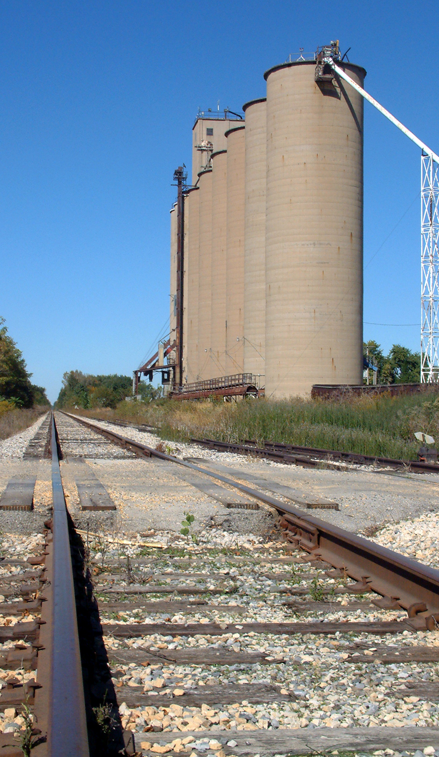 Looking north along the Bee Line Railroad toward the grain elevators in the town of Tab, Indiana.